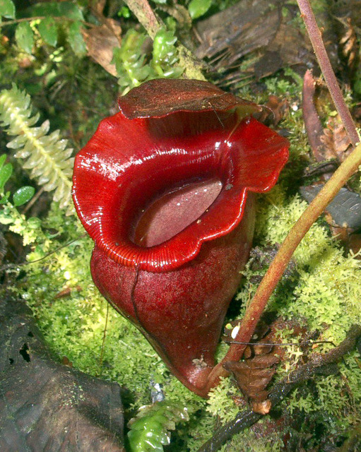 Nepenthes jacquelineae from Bukit Barisan, Sumatra (2,200 m asl).